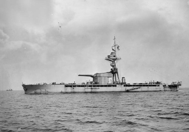 Royal Navy monitor HMS Marshal Ney underway during trials